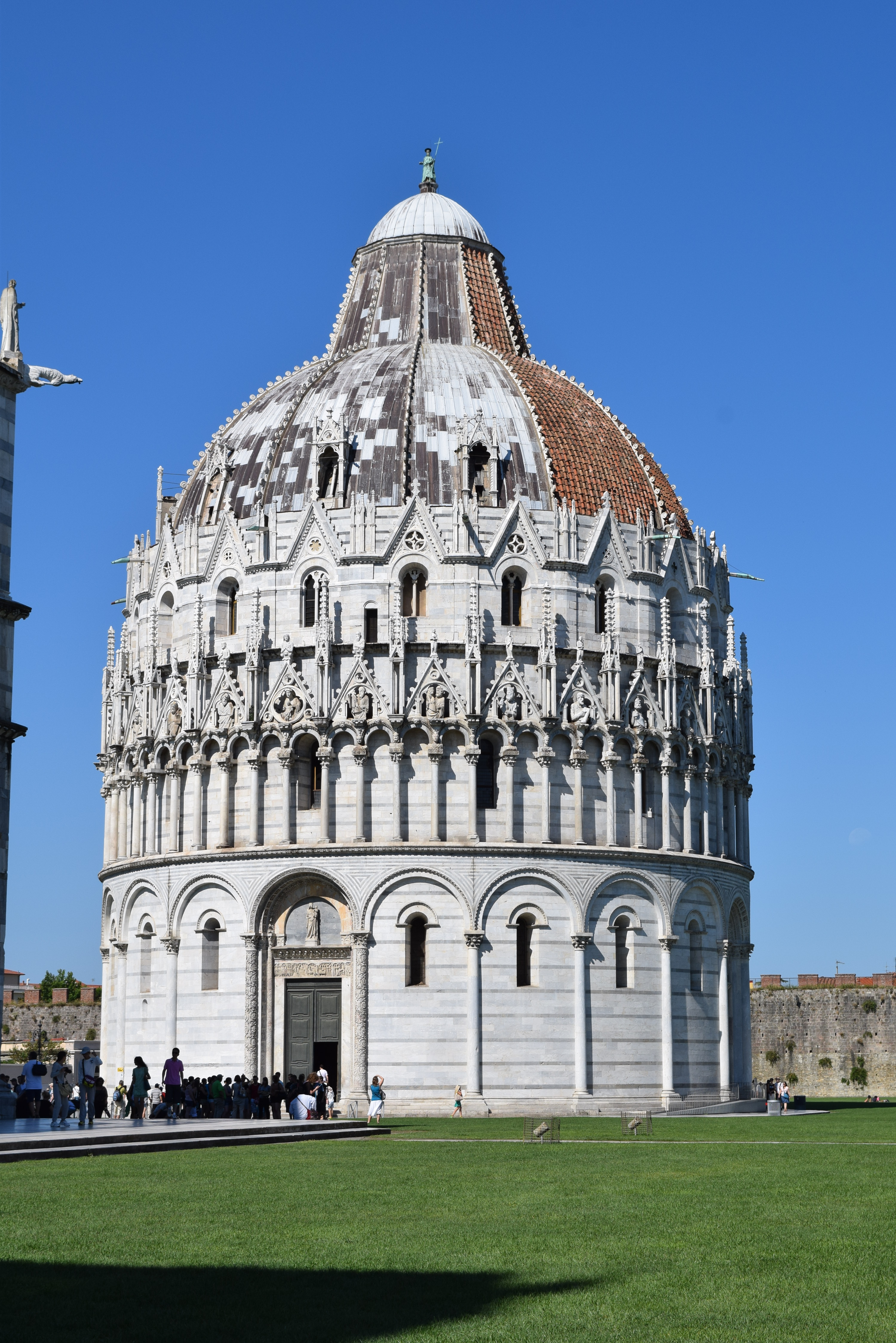 The circular Baptistery, is part of the architectural ensemble of Pisa in Italy